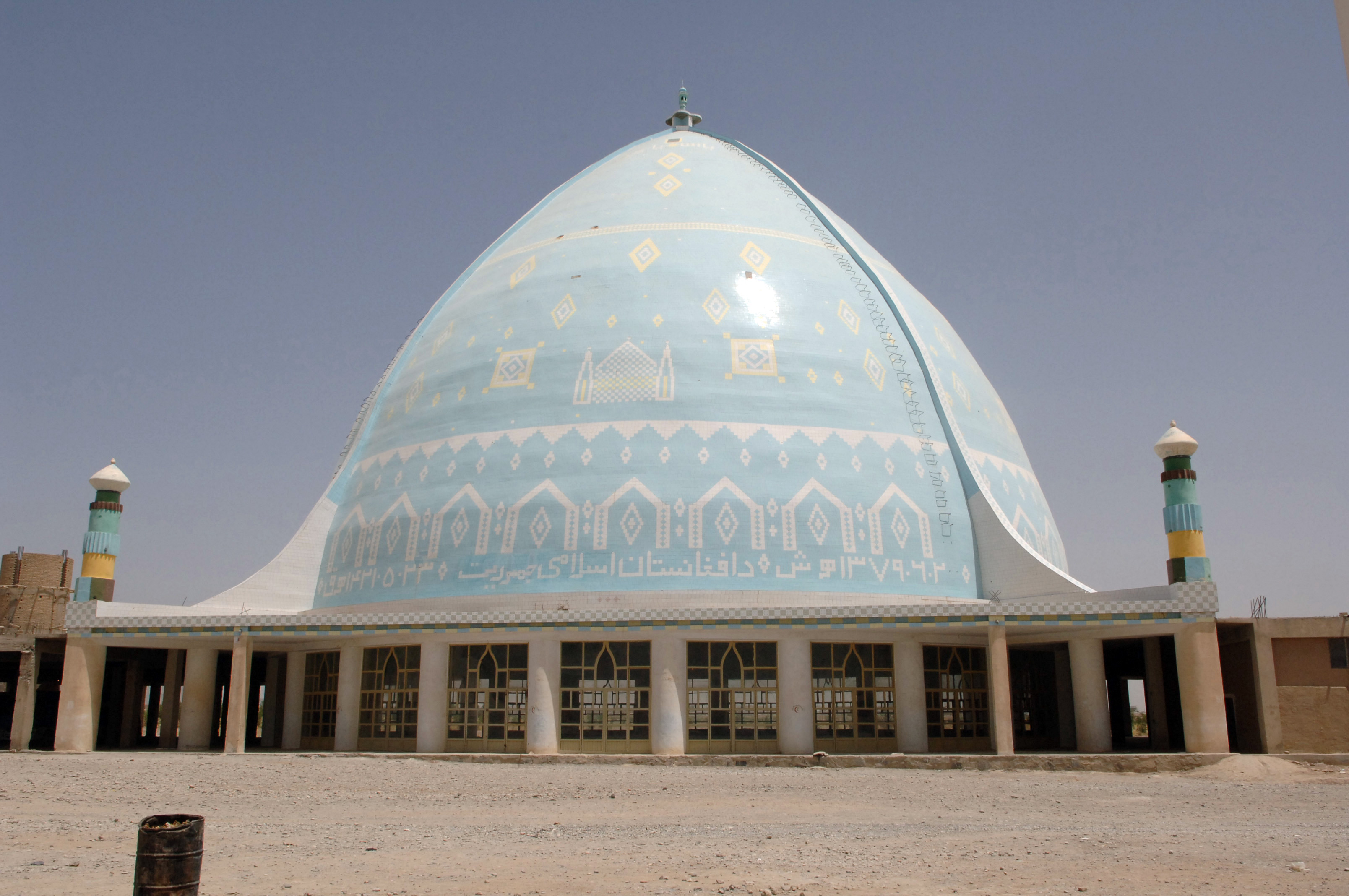 A front view of the Mosque of the University of Kandahar on August 17, 2005. The mosque along with the new buildings were constructed near by the Lowala River at the town of Kandahar, Afghanistan. (US Army photo by PFC Leslie Angulo) (Released) (Released to Public)